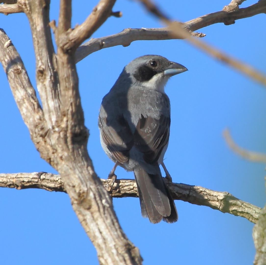 Shrike-like Tanager at Alto Paraiso de Goiás - GO - Brazil